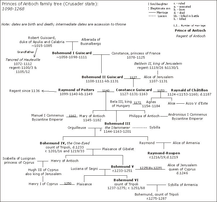 Family tree of the Principality of Antioch (crusader state).